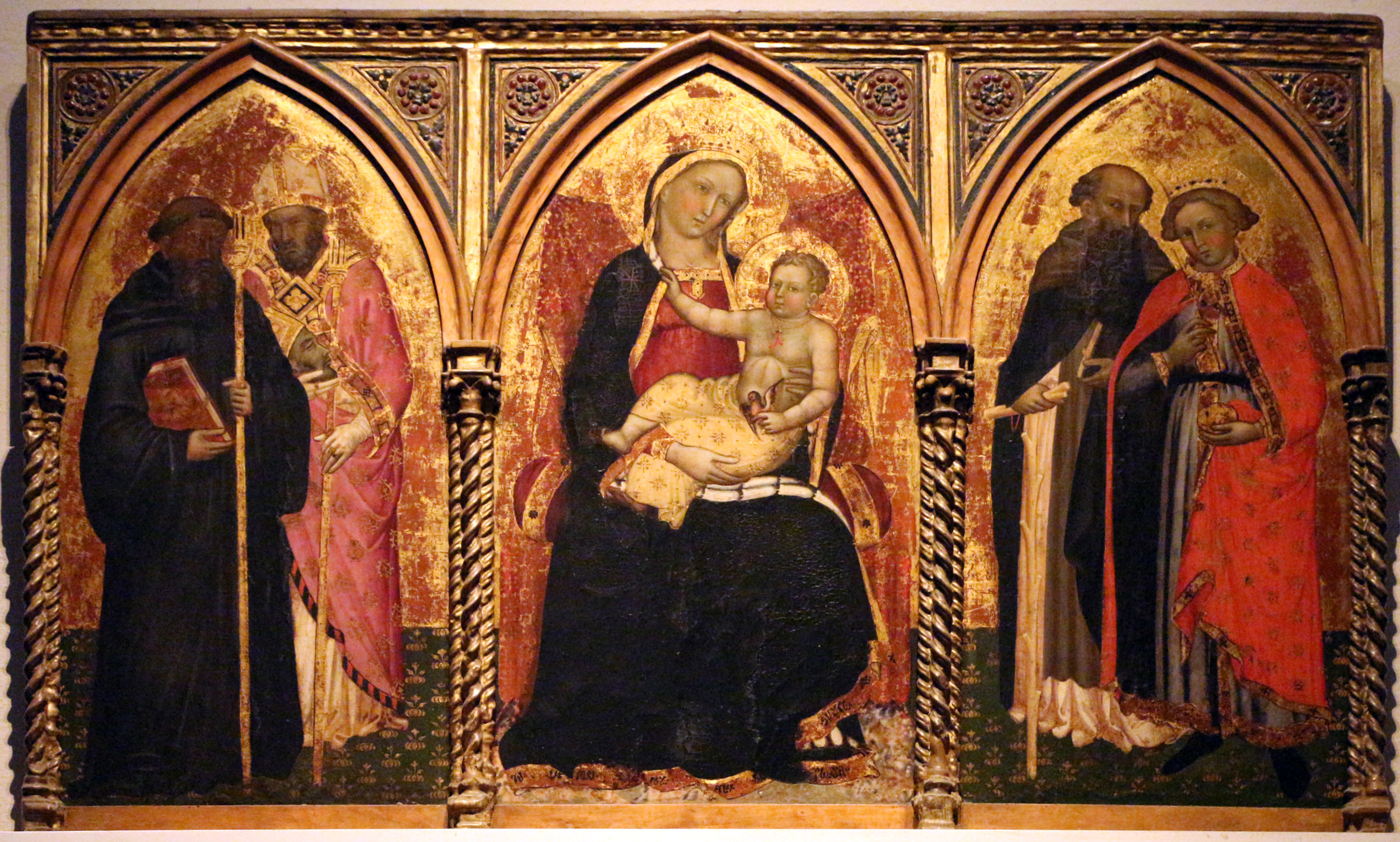 Duomo (Lucca) - Vestry